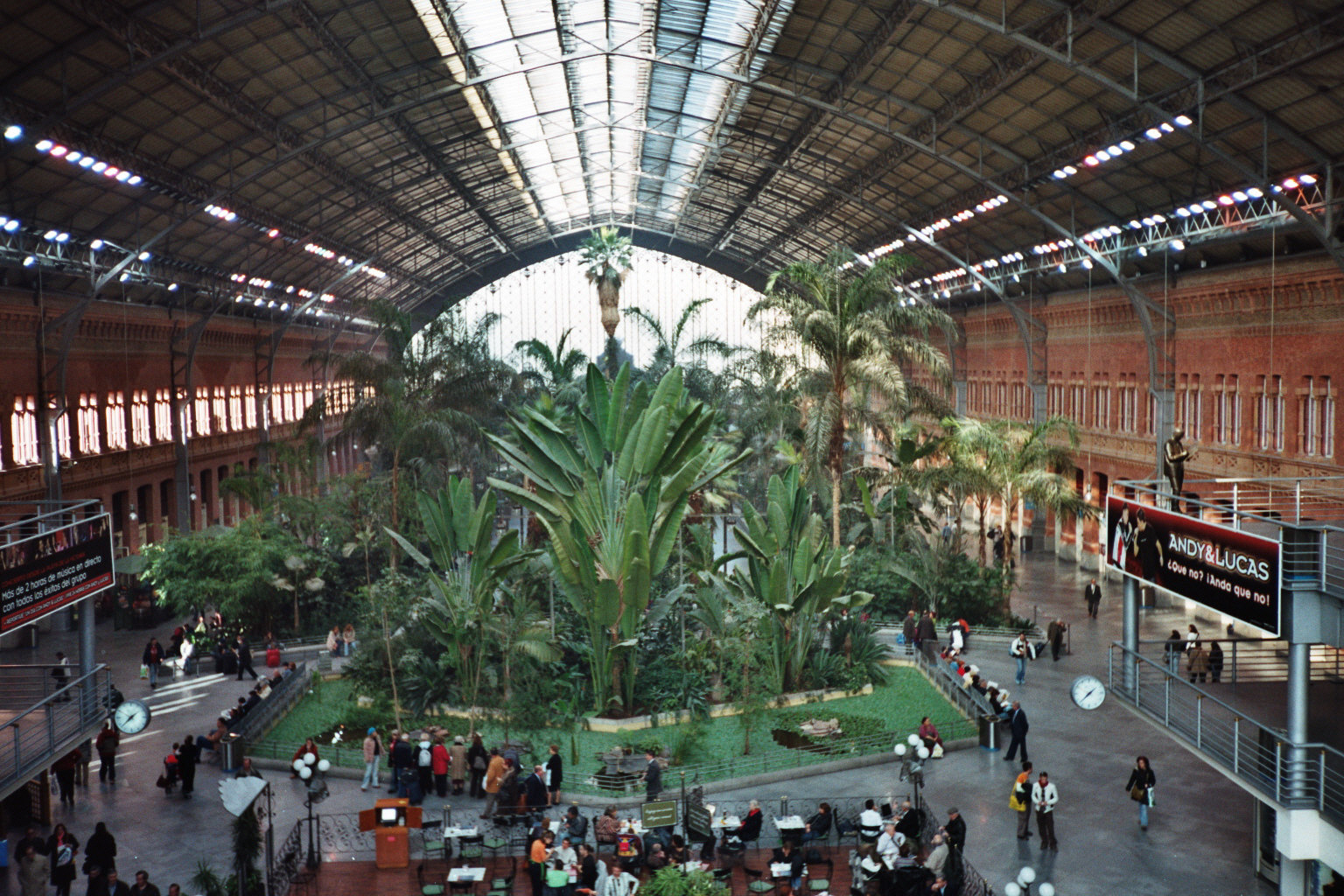 Description: View into Estación de Atocha (Attocha Station) in Madrid. Source: self-made, I release it into the public domain.